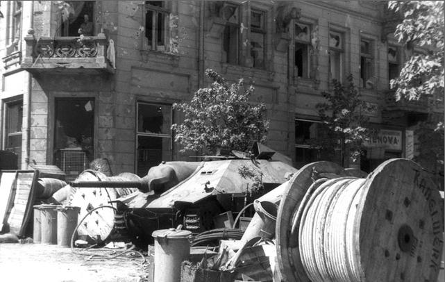 Warsaw Uprising - Polish barricade on the Napoleon Square build around German Jagdpanzer 38(t) "Hetzer" tank destroyer captured by the Home Army. See also Image:Uprising Barykady.png for a map showing location of several Polish barricades in the southern city center area. Note that this barricade is not on the map.